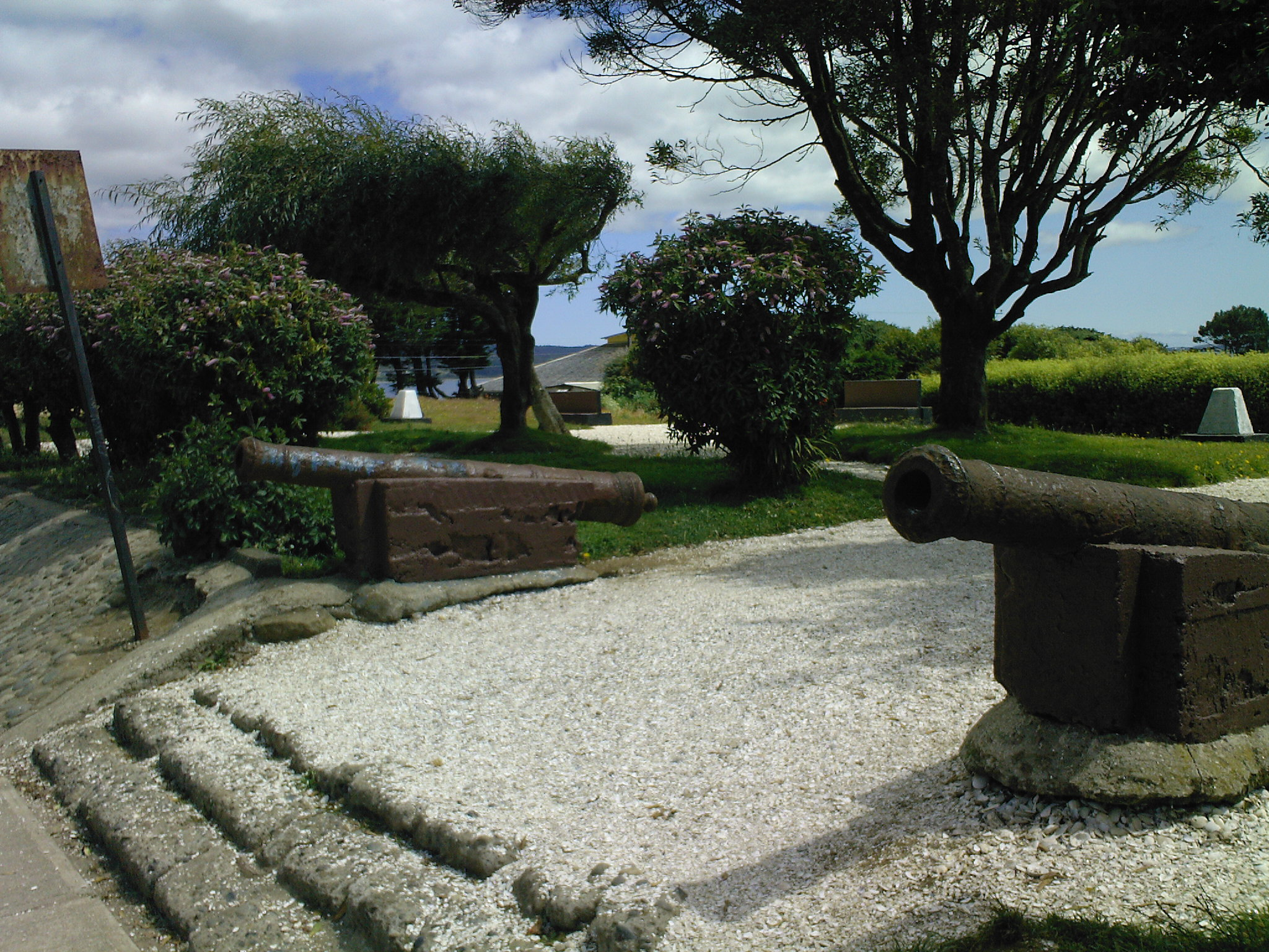 This is a photo of a national monument in Chile: 2069